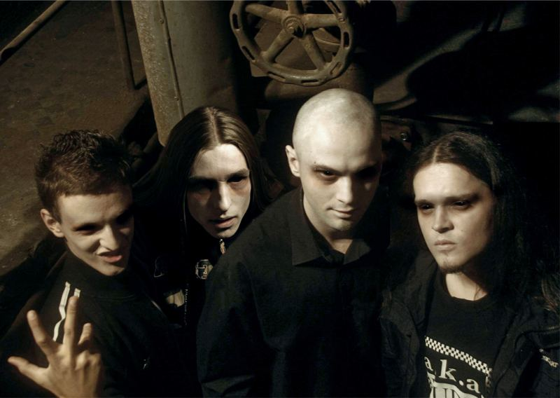 Polish band Thy Disease, from left: Jakub "Cube" Kubica (keyboard), Jakub "Cloude" Chmura (drums), Michał "Psycho" Senajko {vocals), Dariusz "Yanuary" Styczeń (guitar)